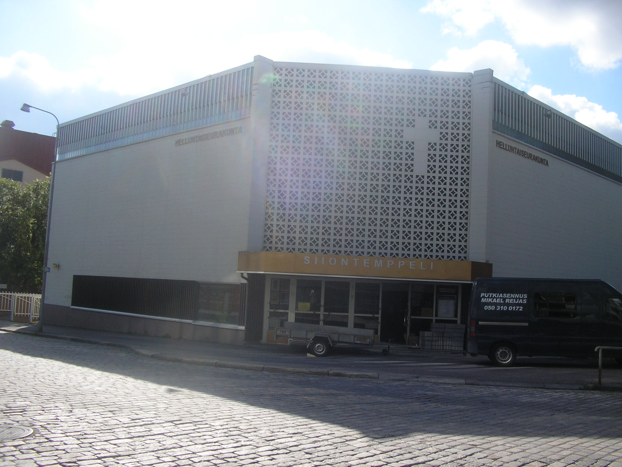 Jyväskylä pentecostal church, Finland